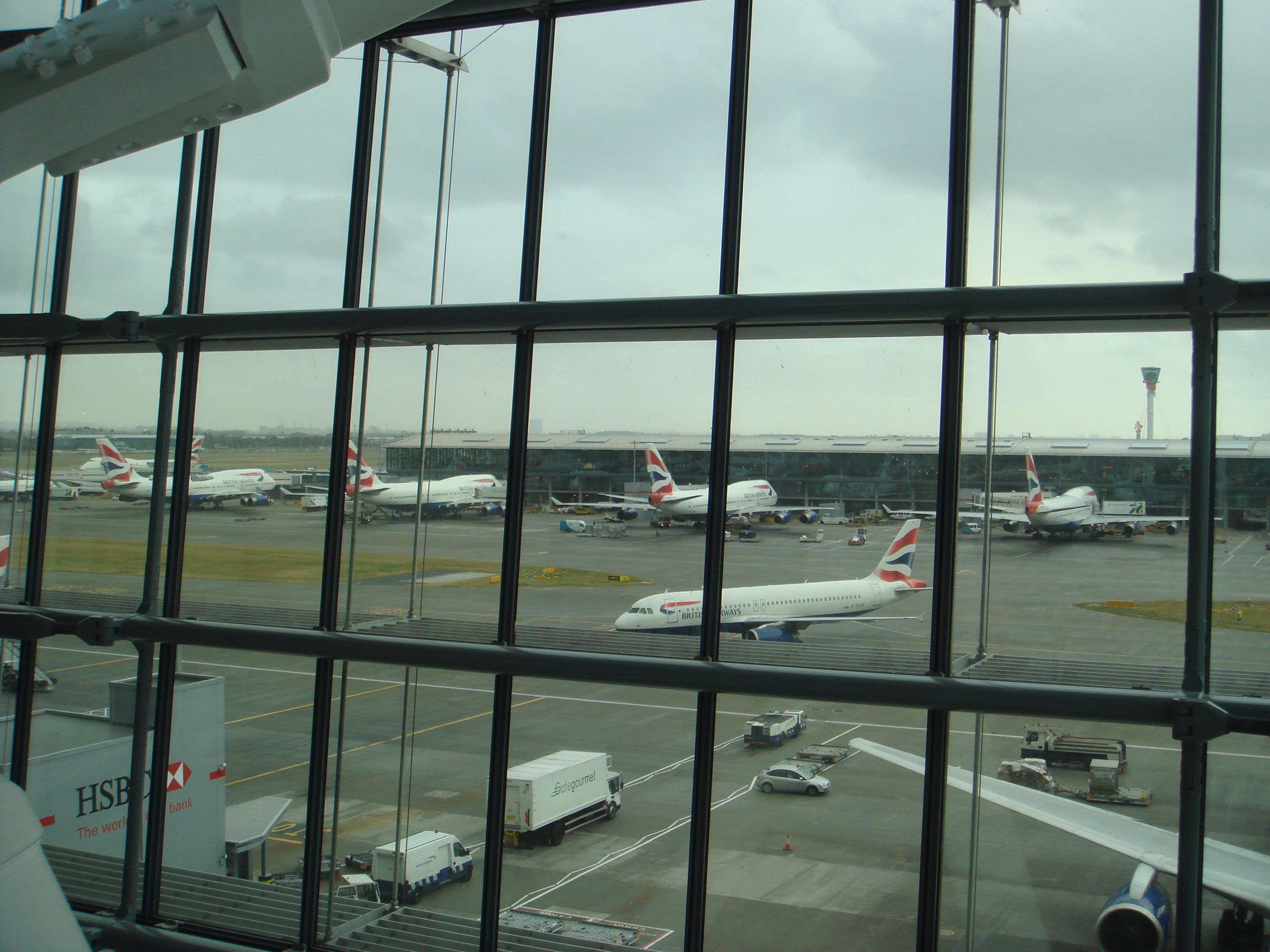 British Airways aircraft at London Heathrow's Terminal 5.